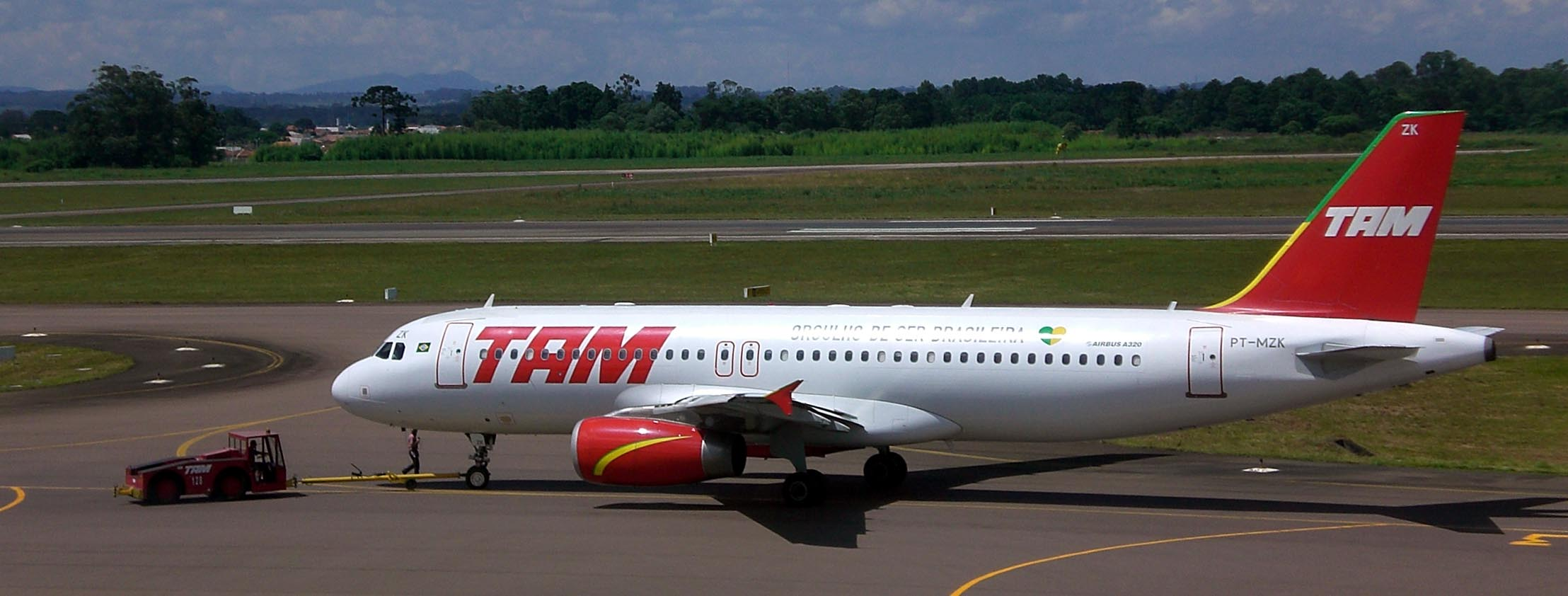 TAM Linhas Aéreas, a Airbus A320-200 , at the Afonso Pena International Airport